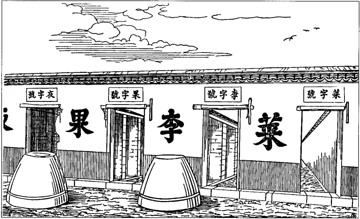 Corridors to examination cells